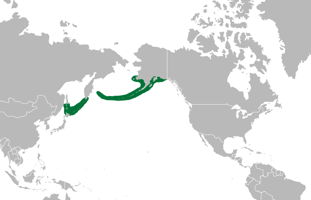 Range of Phalacrocorax urile